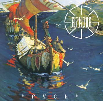 Album cover of Rus by Arkona. Based on painting File:Nicholas Roerich, Guests from Overseas.jpg by Nicholas Roerich